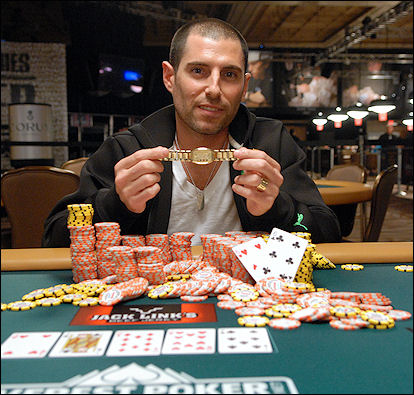 Andrew Cohen wins 2009 WSOP Event #1